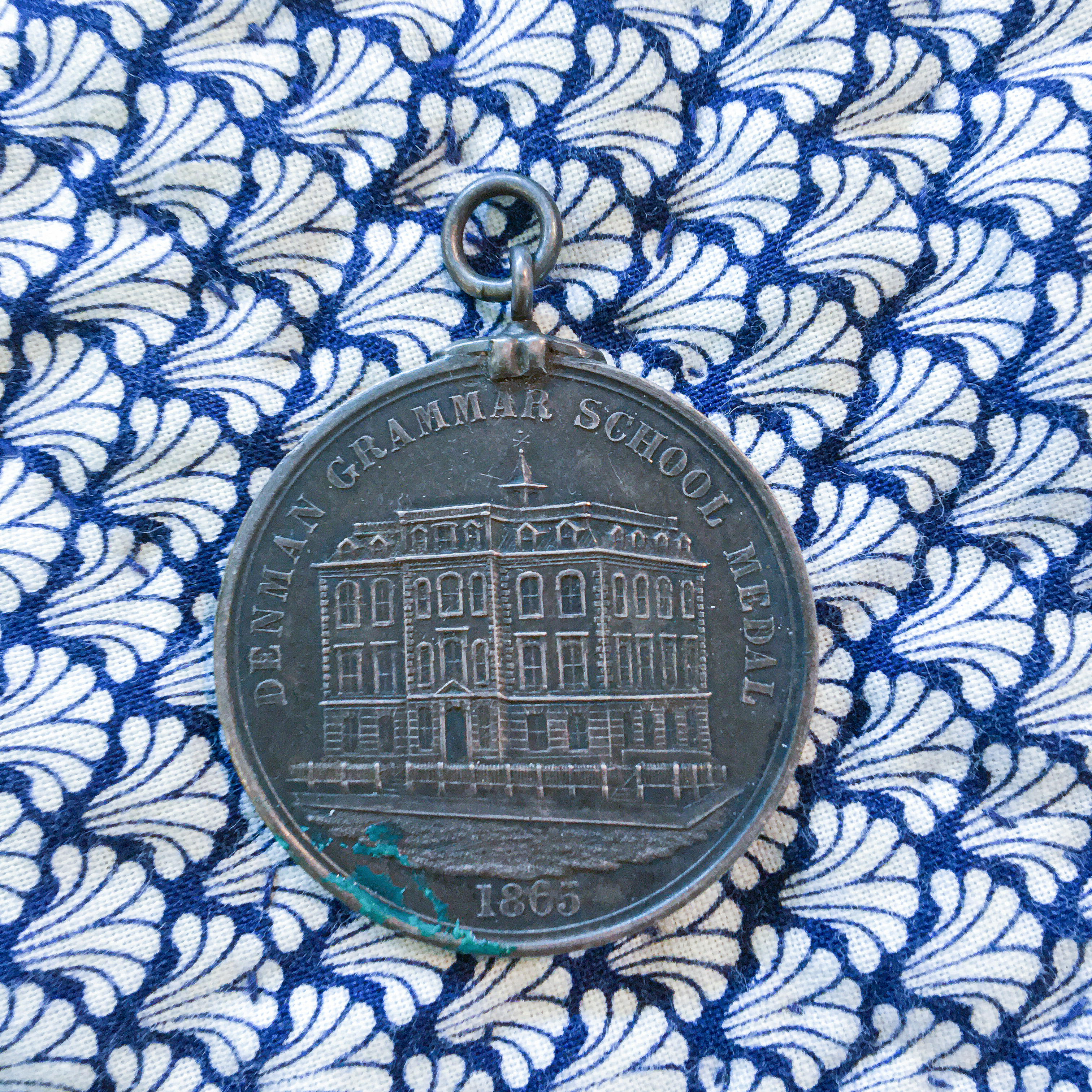 Denman Grammar School in San Francisco, California, awarded medals to their top graduates. The first medals were awarded in 1865. This model was awarded in 1896 and was made of silver. A later, analogous, award was established for male pupils in San Francisco, the Bridge Medal. Denman Grammar was all-female.